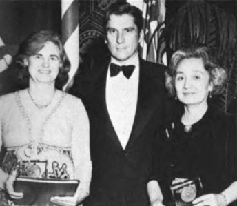 Isabella Karle, John Warner, and Marguerite Chang pose for a photo. Both women are holding awards. Karl is a white woman, smiling; Warner is a white man in a tuxedo; Chang is a Chinese woman with grey hair, smiling.